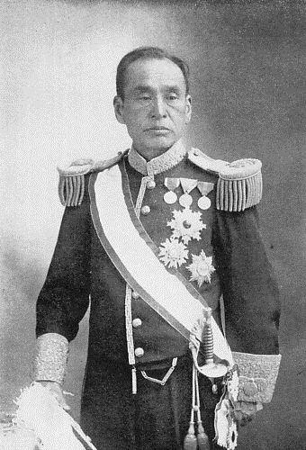 Yozo Yamao